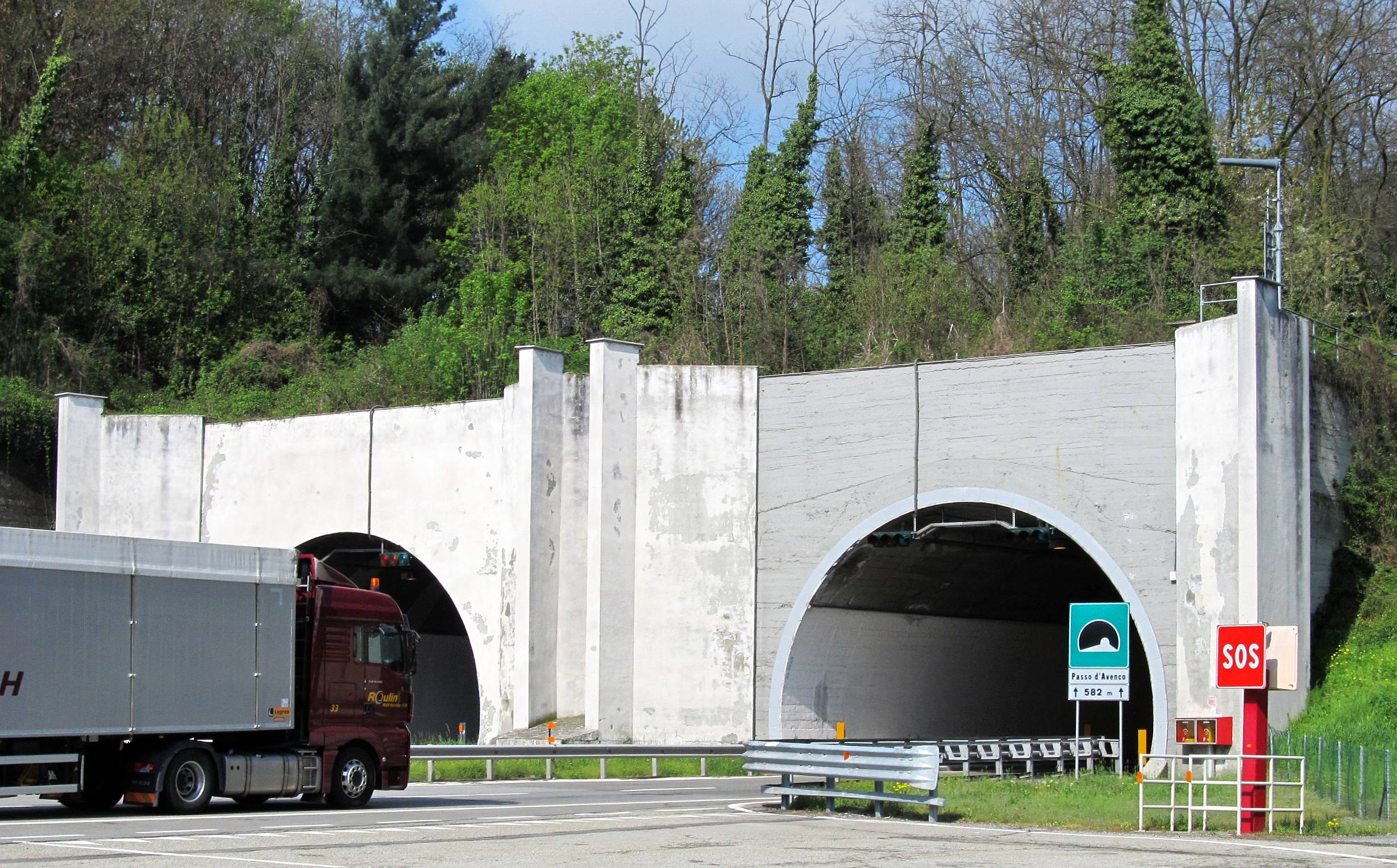 Autostrada A4-A5 (european road E25): Avenco pass tunnel (TO, Italy)